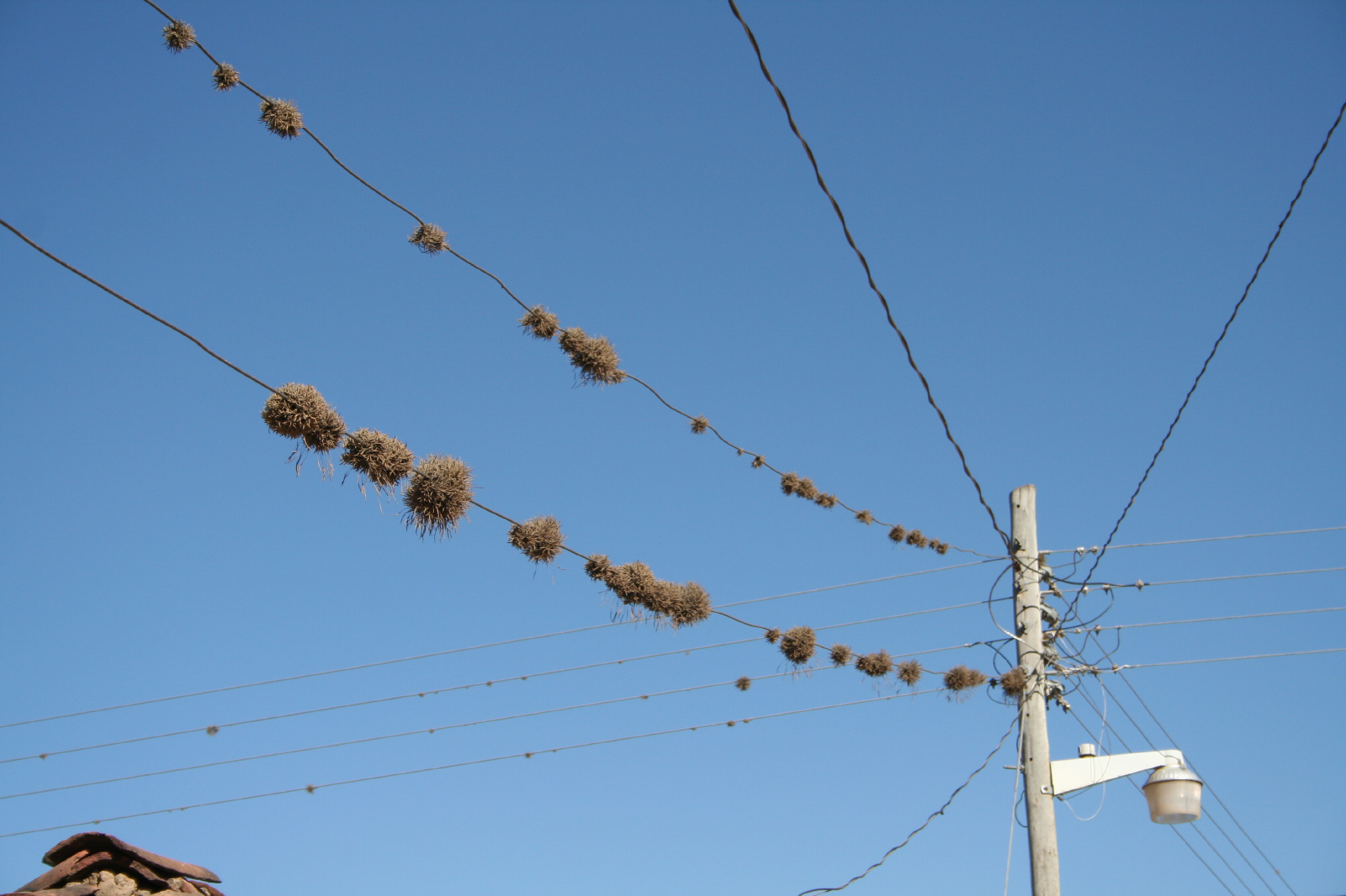 Ubiquitous bromeliads that could be found on every telephone line in the whole town of Serrano, Bolivia.